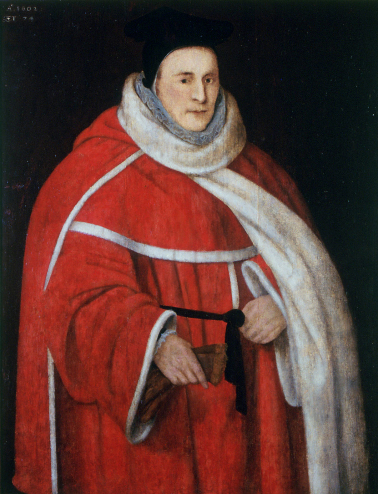 (Image shown on this file apparently reversed) Text from HLS website ( The portrait of Sir John Popham, chief justice of the King’s Bench during the reign of Queen Elizabeth I, returned to the HLS Art Collection this spring (i.e. 1999) after extensive restoration, his scarlet robe redder than it has been in years. Popham, whose likeness now hangs in the Caspersen Room in Langdell Hall, presided over some of the most notable political cases of his day, including the treason trials of the Earl of Essex (1601) and Sir Walter Raleigh (1603). The oil-on-panel portrait (one of three paintings of Popham known to exist) was completed in 1602 by an unknown artist, and acquired in 1931 for HLS by Dean Roscoe Pound. When the painting was sent to the Straus Center for Conservation at the Fogg Art Museum, the paint was flaking, and the varnish was badly discolored. Previous cleanings had worn away layers of paint and scoured away detail, some of which cannot be retrieved. But painting conservator Teri Hensick removed layers of discolored varnish and overpaint and "knit back together the image" using watercolors and other "reversible" paints. The eighteenth-century Kent frame was given new life by conservator Susan Jackson, who replaced missing rosettes and applied new gold leaf.